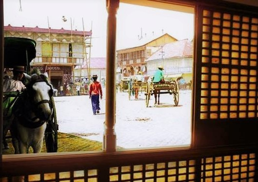 View of the streets of Manila the Paris of Asia from the Sliding Capiz Window. portraying Bahay na bato houses and Kalesas